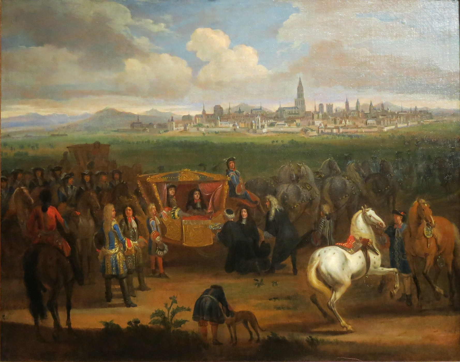 Presentation of the keys of Strasbourg to Louis XIV (October 23th 1681). Museum of history in Strasbourg (Bas-Rhin, France).